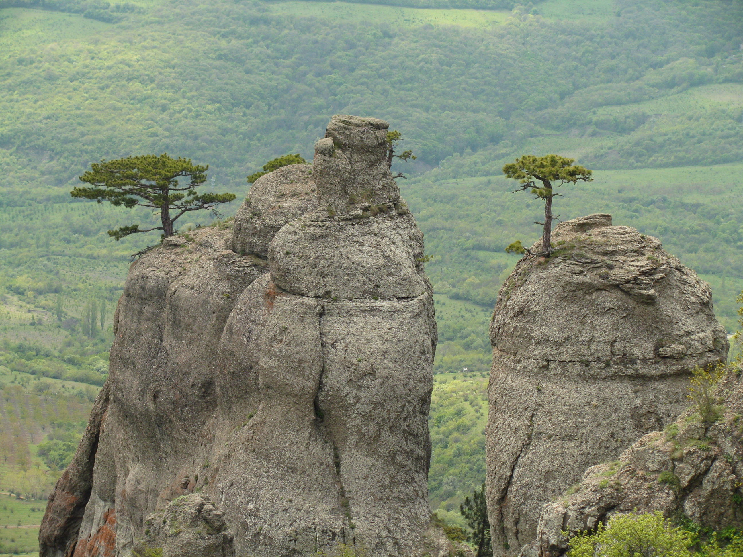 Demerdji, Crimea, Ukraine